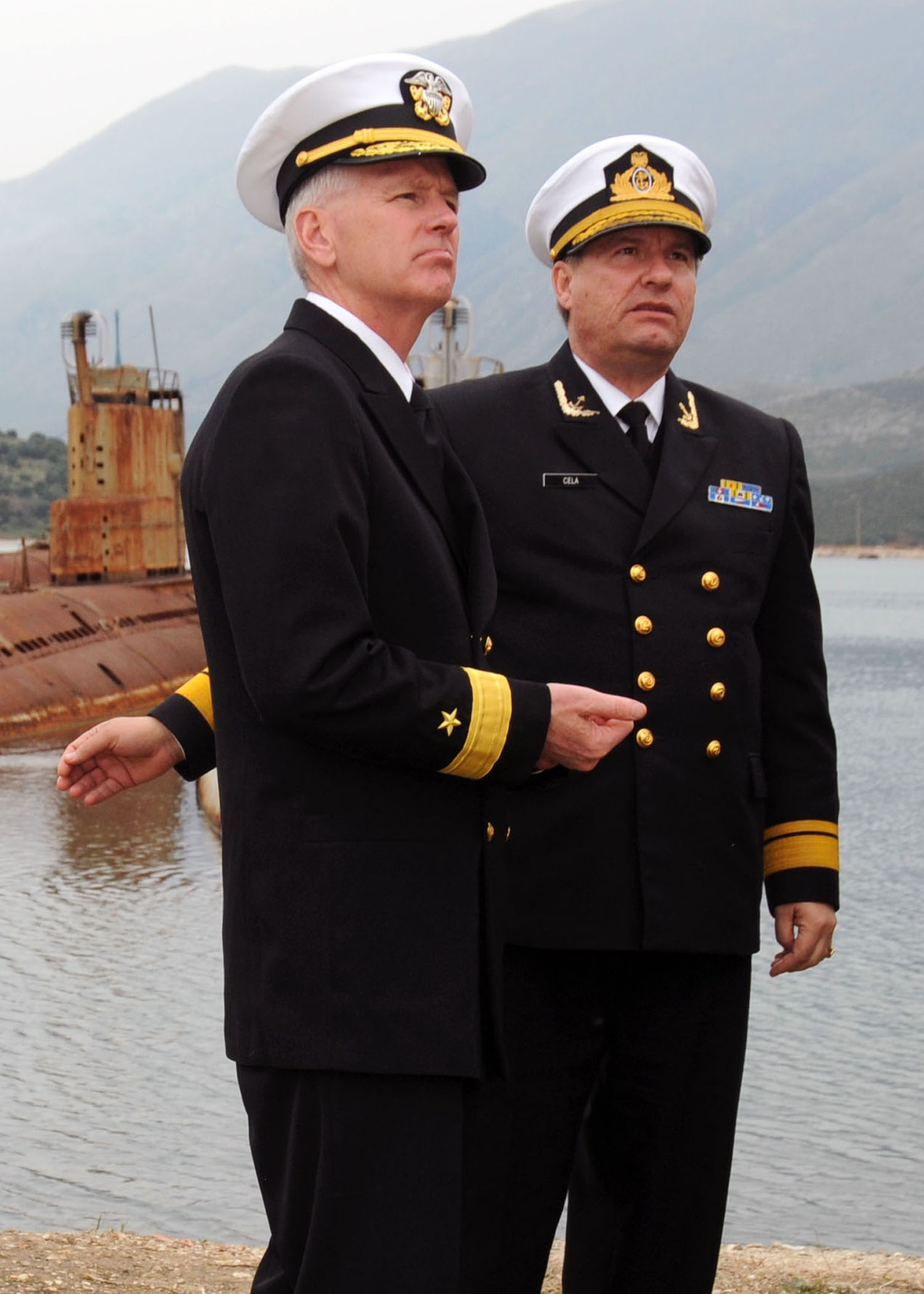 PASHALIMAN, Albania (March 22, 2010) Rear Adm. Gerard P. Hueber, deputy chief of staff for Strategy, Resources and Plans for U.S. Naval Forces Europe-Africa, receives a tour of the Pashaliman Naval base with Rear Adm. Kudret Cela, commander of Albanian Naval Forces, during a recent trip to Albania. This visit serves to continue U.S. 6th Fleet efforts to build global maritime partnerships with European nations and improve maritime safety and security. (U.S. Navy photo/Released)